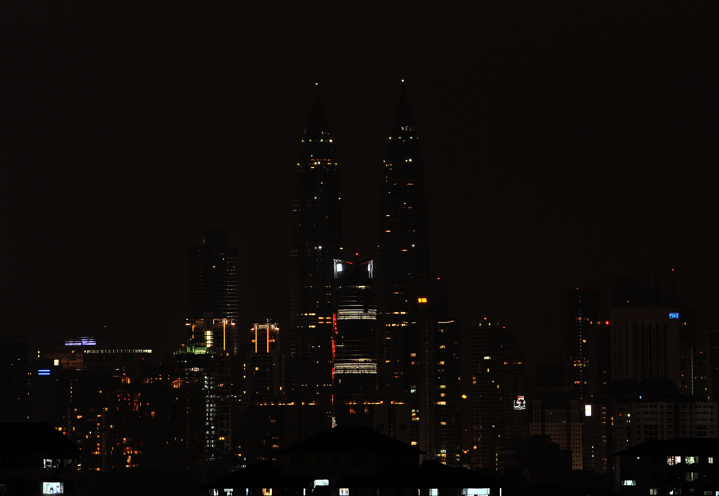 Kuala Lumpur,24/03/2013. Malaysia's landmark Petronas Twin Towers are turned off to mark Earth Hour in Kuala Lumpur. Pix Firdaus Latif